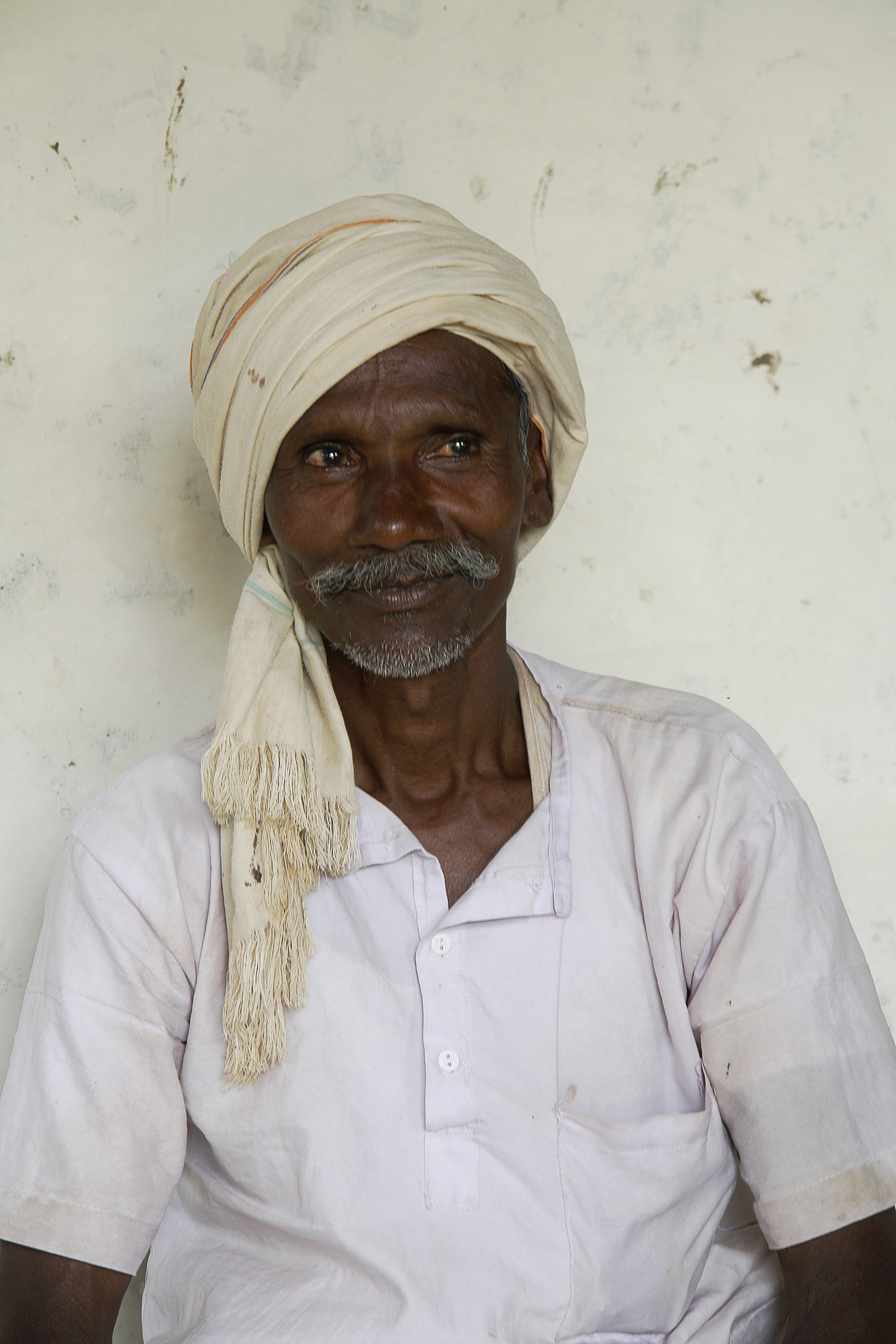 Farmer adivasi (Gondi tribe) with turban, Umaria district, M.P., India.